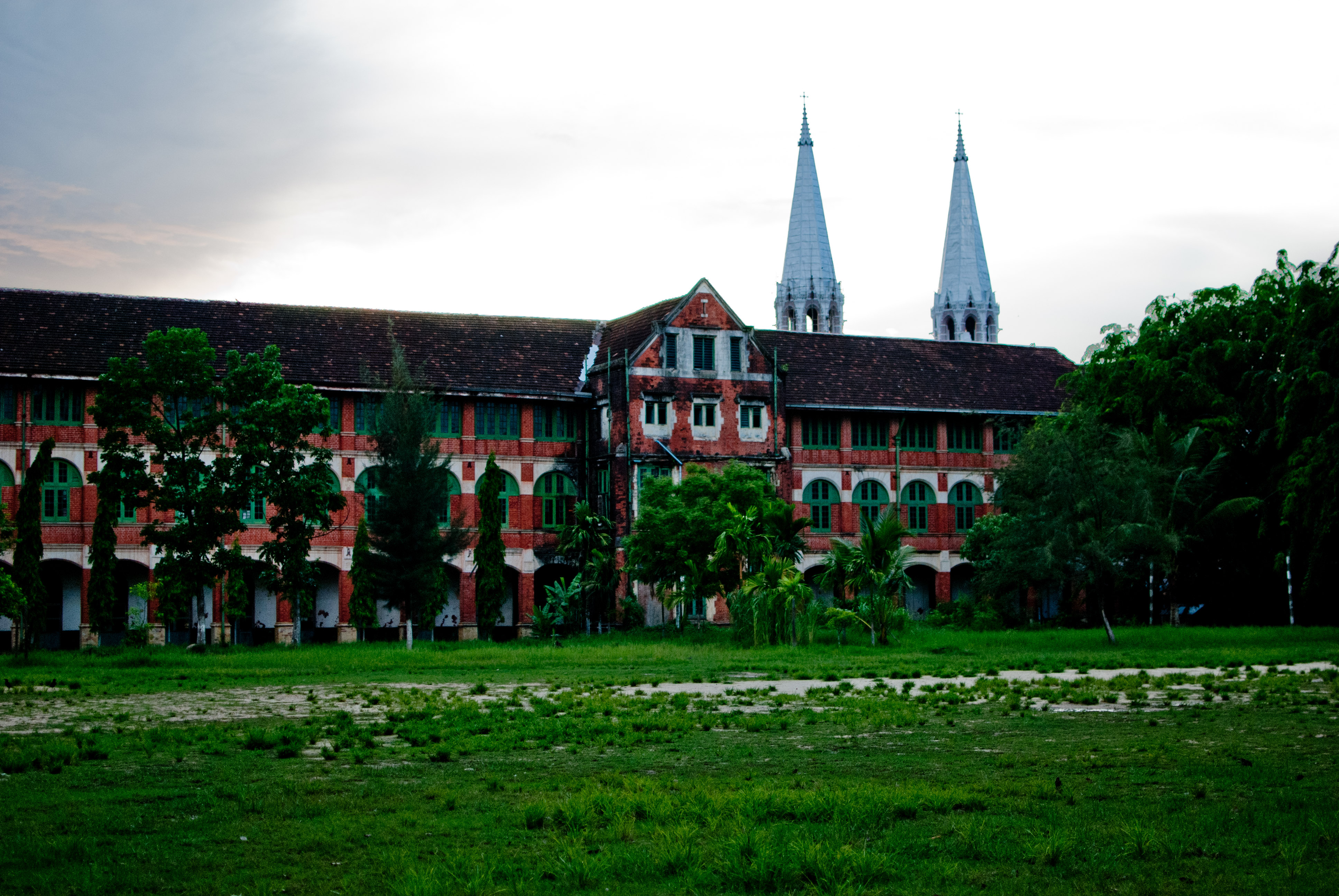 St. Paul High School, Yangon